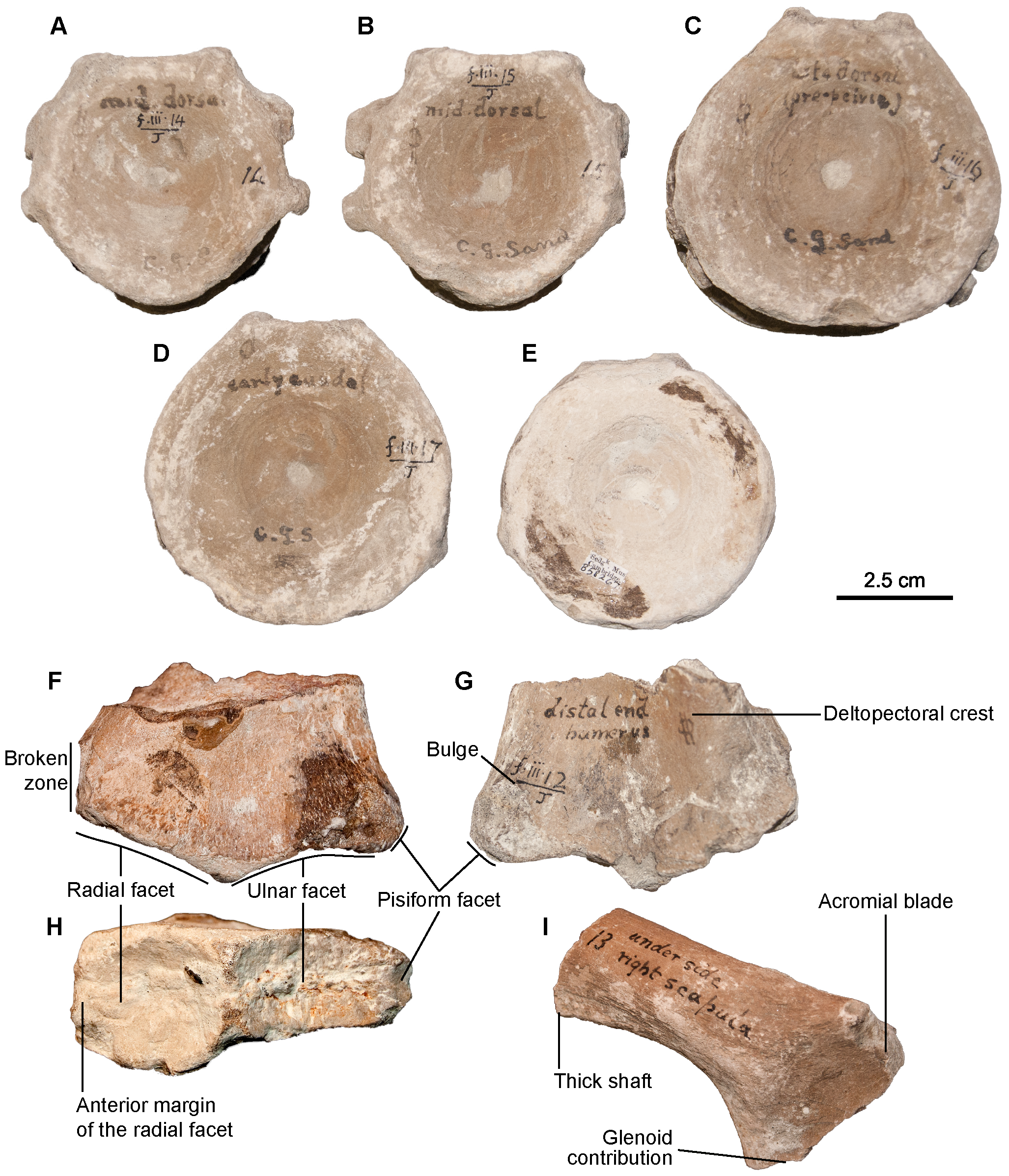 Sisteronia seeleyi, axial and shoulder girdle elements of holotype specimen (CAMSM B58257_67). A–E: centra in anterior view. A: cervical centrum. B: anterior thoracic centrum. C: posterior thoracic centrum, close to the sacral region. D, E: anterior caudal centra. F–H: left humerus (CAMSM B58257_67) in dorsal (F), ventral (G), and distal (H) views. Note the presence of a facet for a posterior accessory epipodial element, a feature only found in some platypterygiine ichthyosaurs. I: right scapula in anterior view.